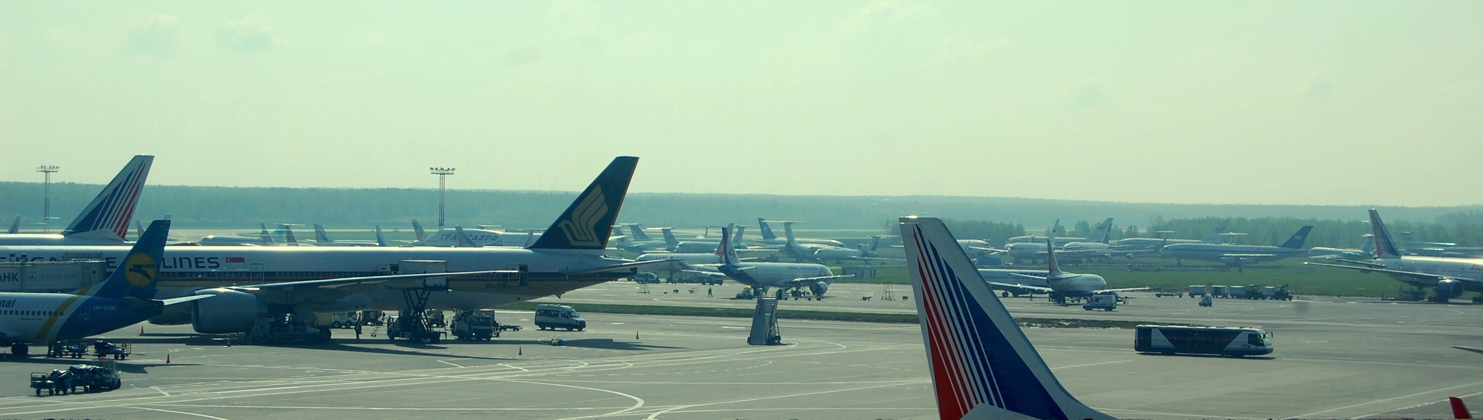 Moscow Domodedovo Airport ramp